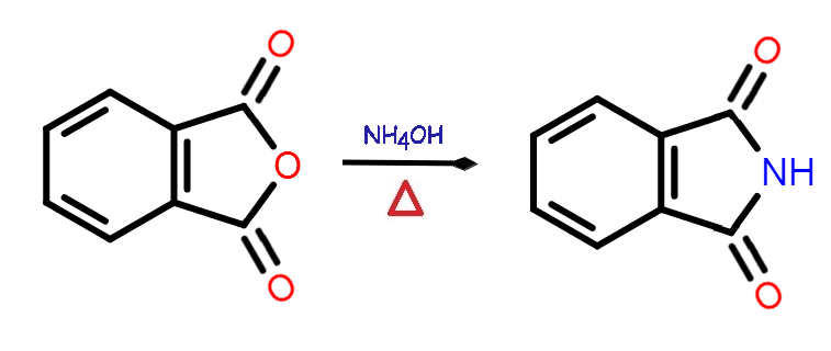 phthalimide synthesis from phthalic anhydride and ammonium hydroxide